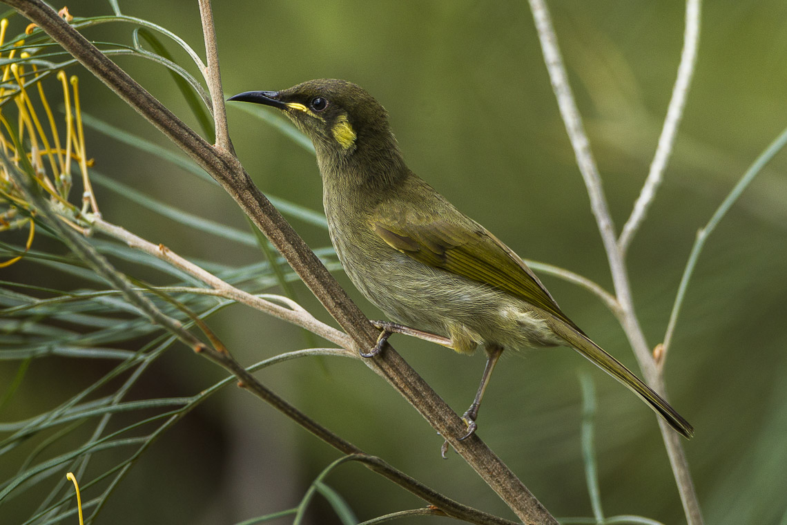 Yellow-spotted Honeyeater - Kingfisher Park - Queensland_S4E9609